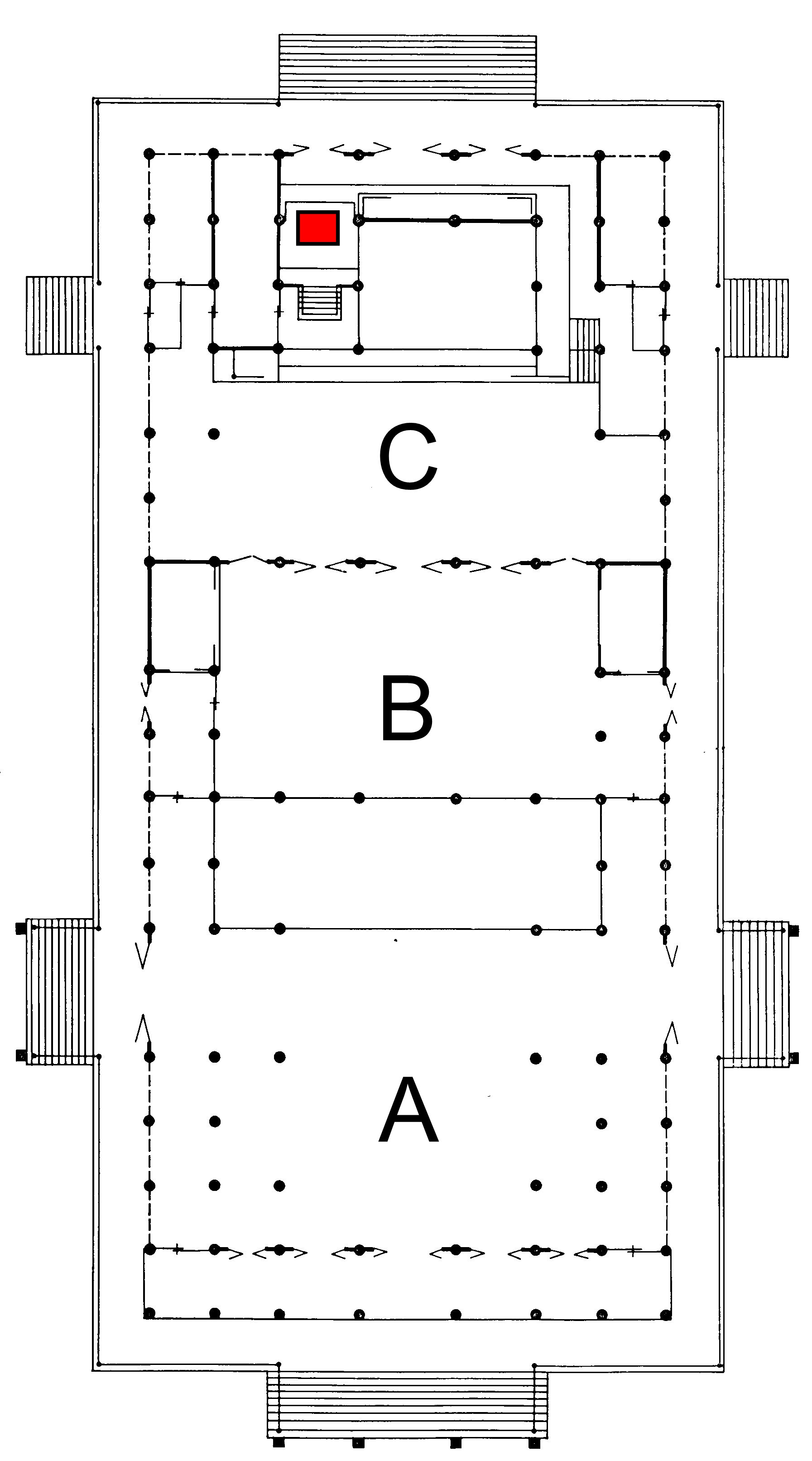 Layout of Zenko-ji (Nagano)